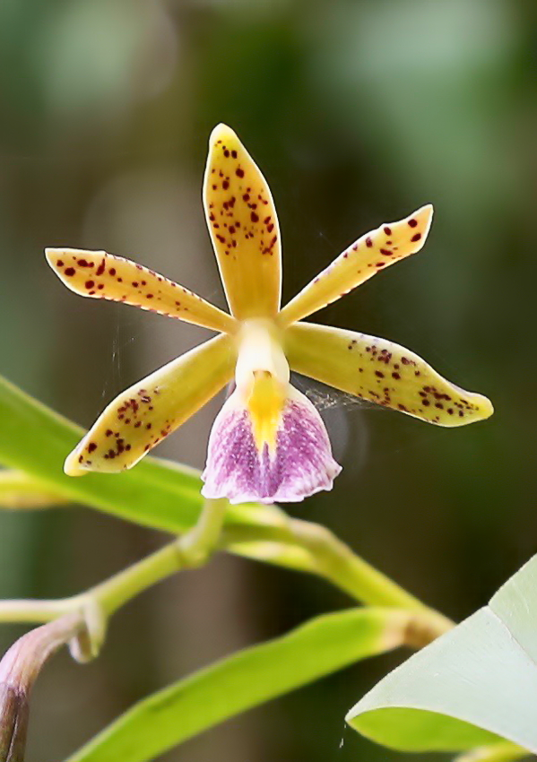 Epidendrum medinae, Ecuador, Mindo, along the town road